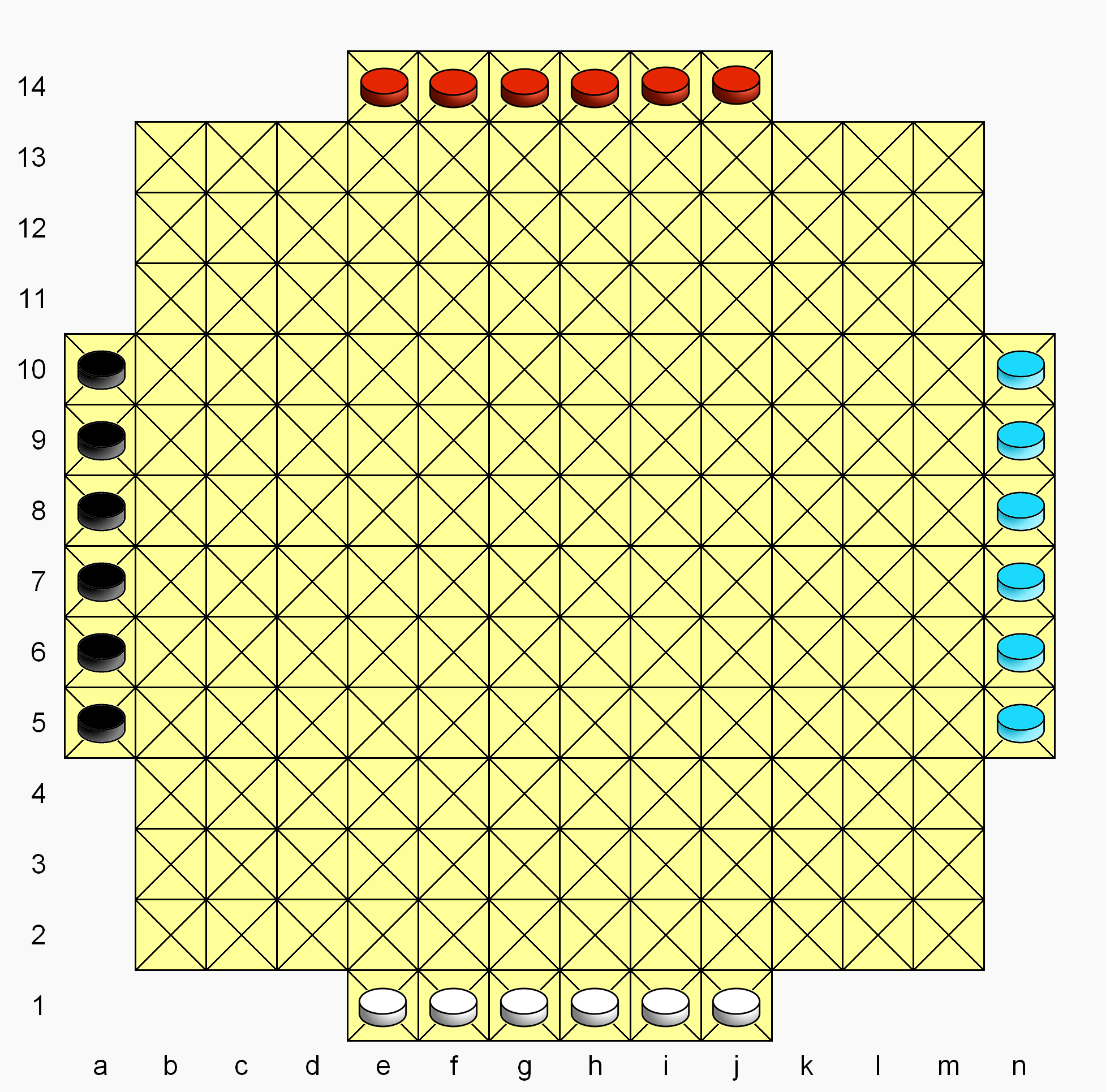 Stone Warriors board & starting position for four. Using the checker icons of User:Stellmach (svg'd by User:Stannered), some recolored; all done in MS PAINT.